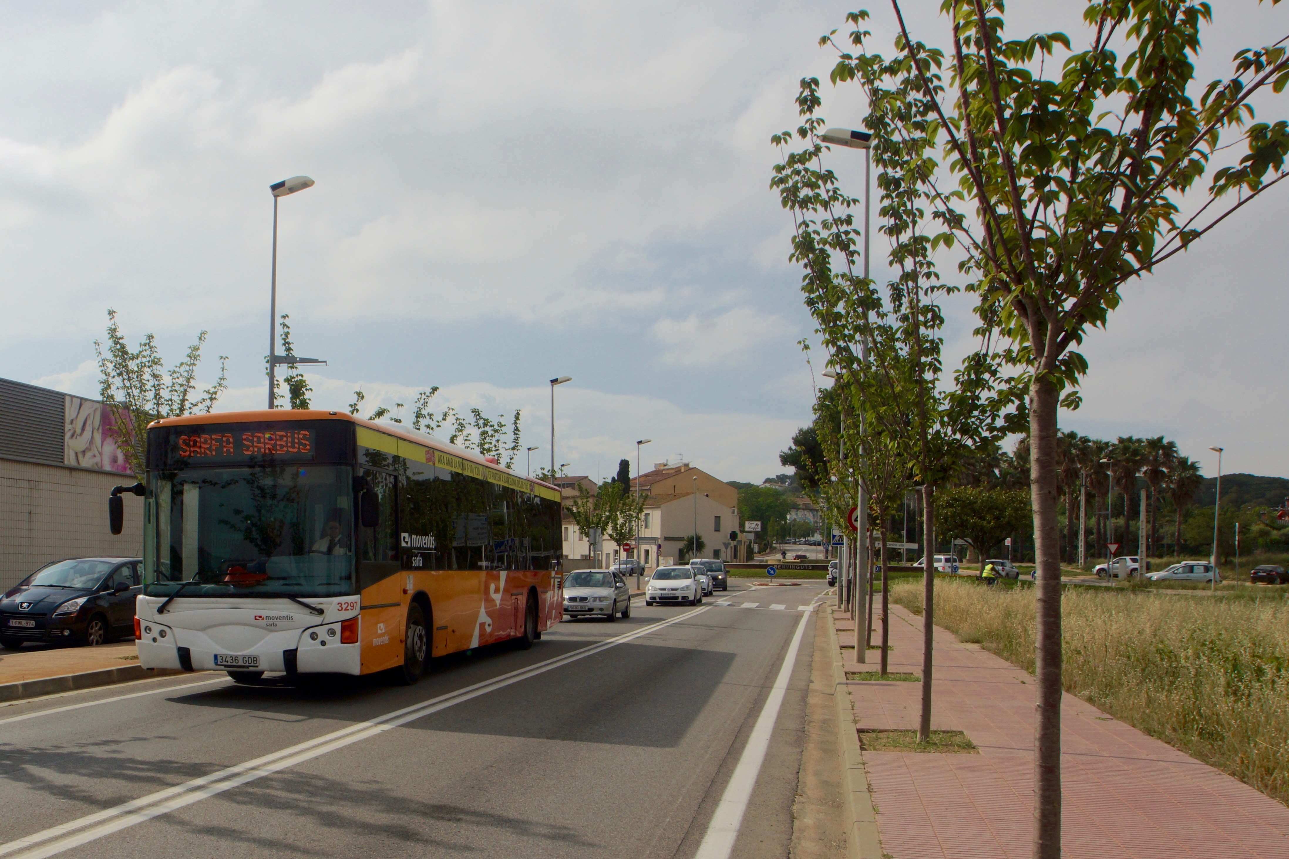 Calonge (Avinguda de la Unió), Catalonia: Sarfa bus in direction of Sant Antoni.